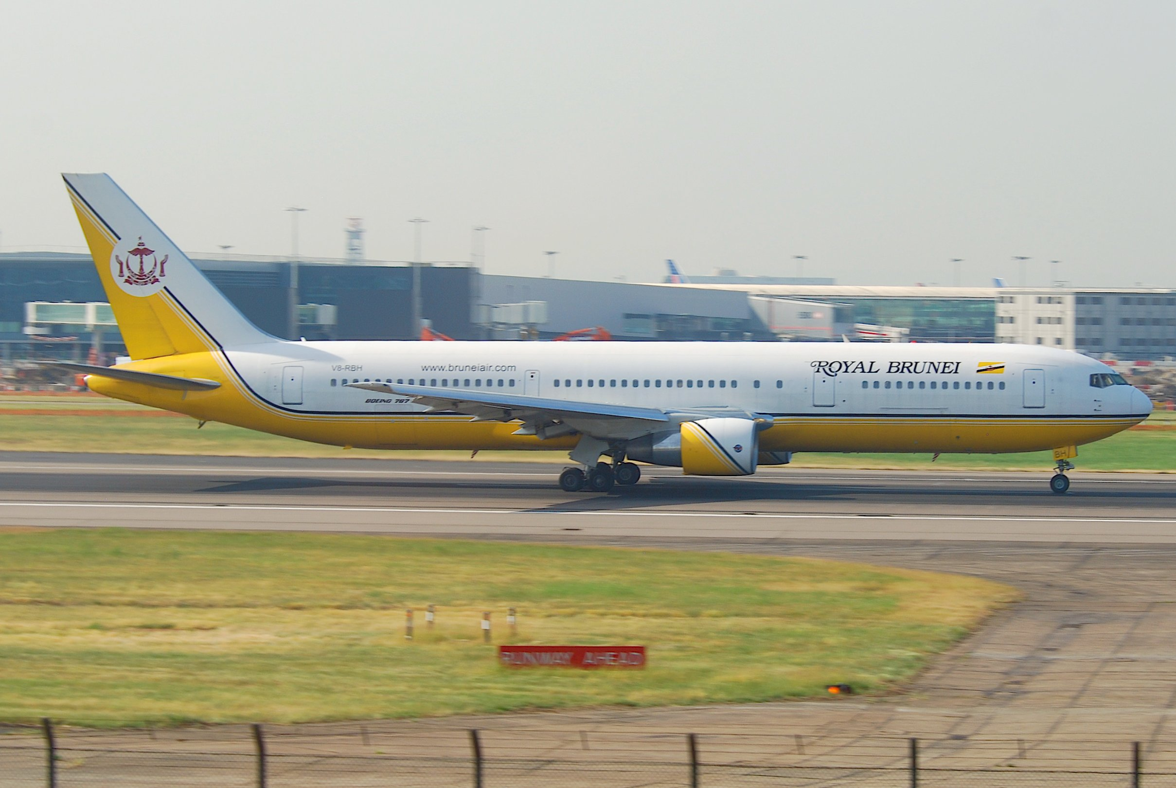 Royal Brunei Airlines Boeing 767-33AER; V8-RBH@LHR;05.06.2010/576ca